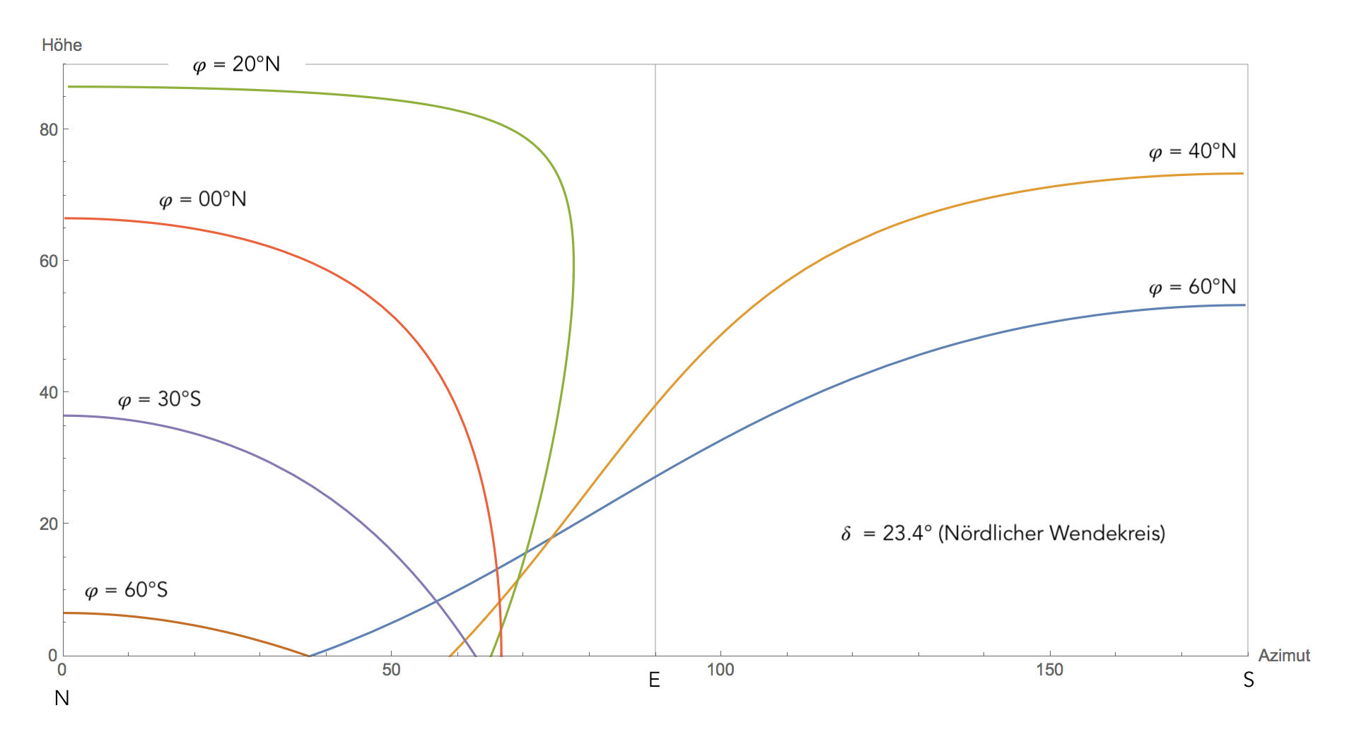 Sunrise d23.4 Azimut